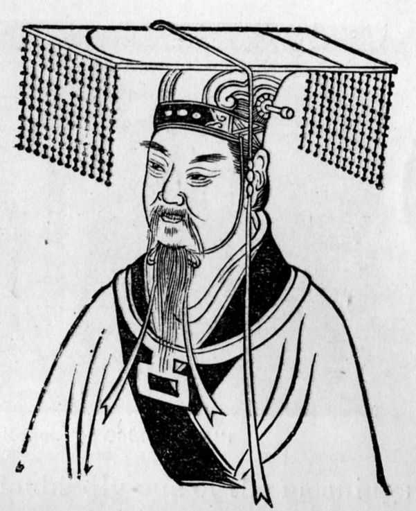 The Yellow Emperor, one of the mythical Five Emperors of ancient China